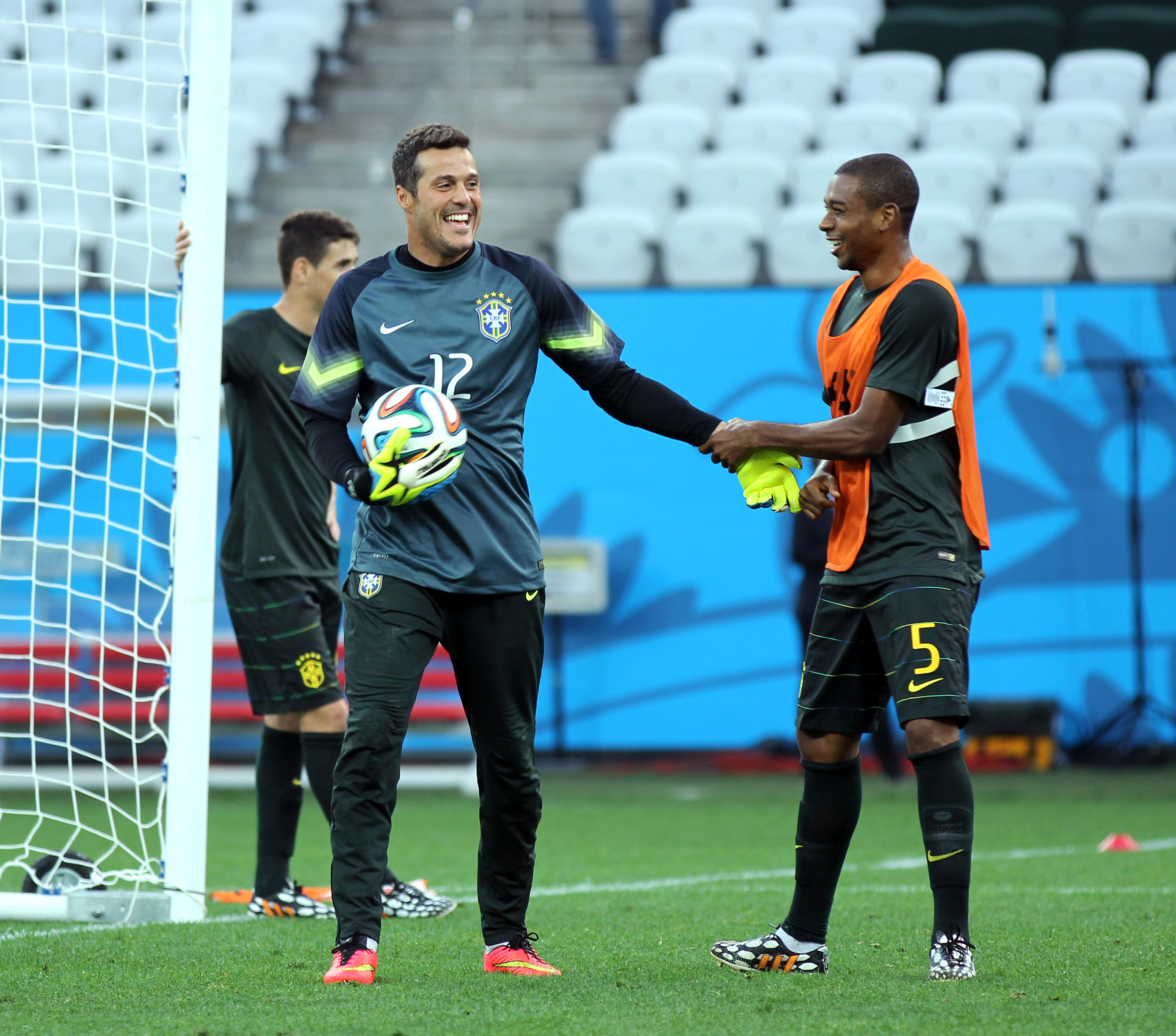 Brazil national team training for 1 day before the start of the first game of the 2014 World Cup qualifier against Croatia 2014-06-11